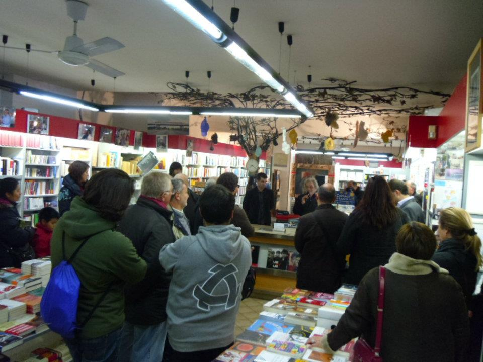 Pellicanolibri during the exhibition of paintings by Fabio Mariani